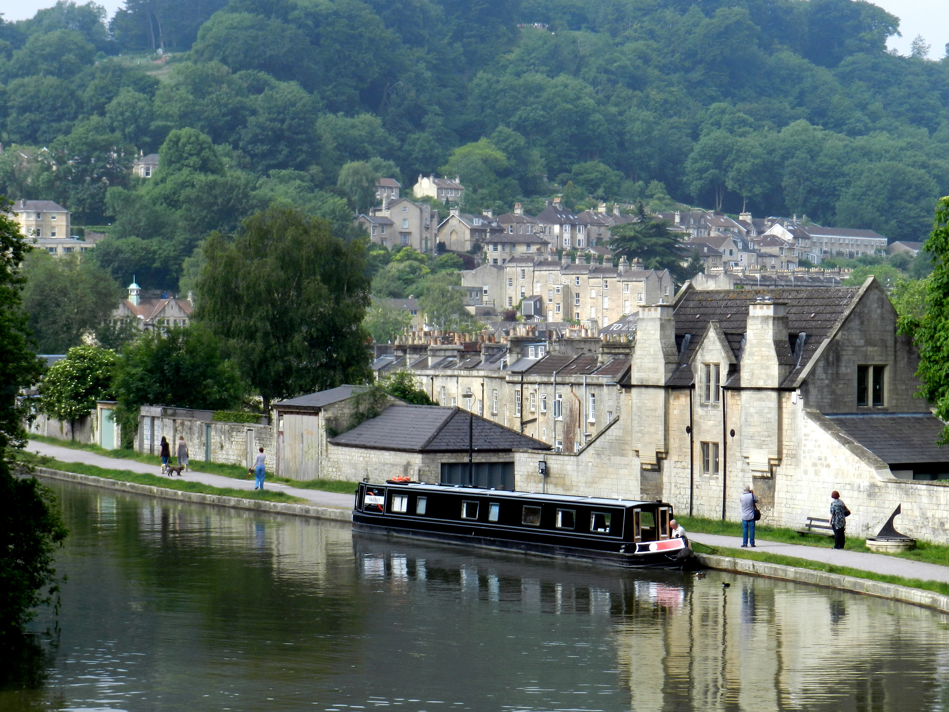 Bath in England